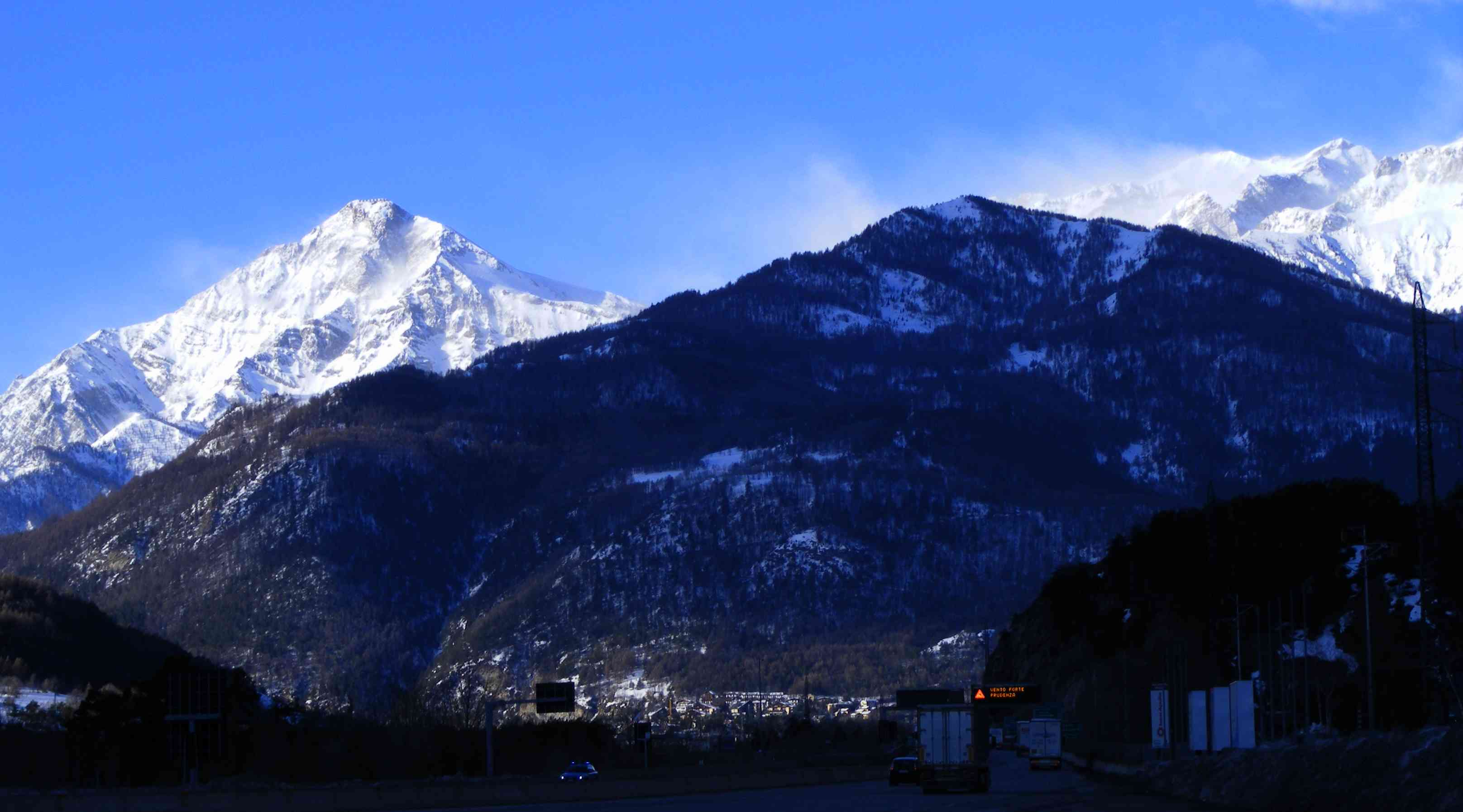 Mount Cotolivier (on the left Mount Chaberton); Susa Valley, Italy